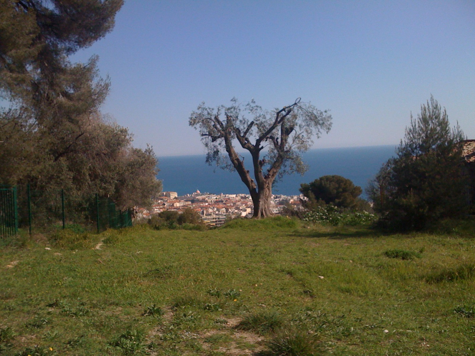 The Estienne-d'Orves park, in Nice, France.